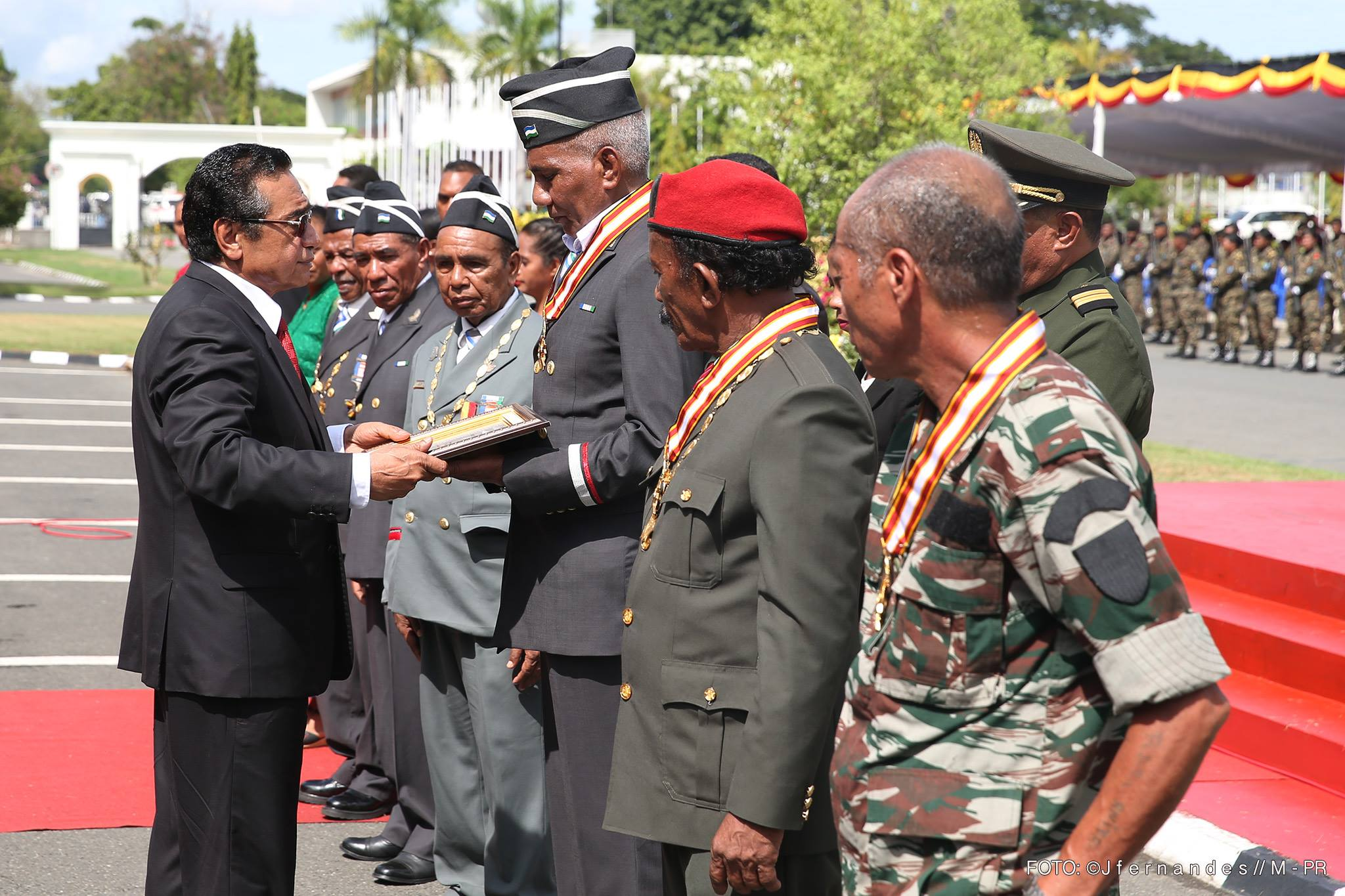 Jaime Ribeiro (Samba 9) receives the order of Timor-Leste from Francisco Guterres